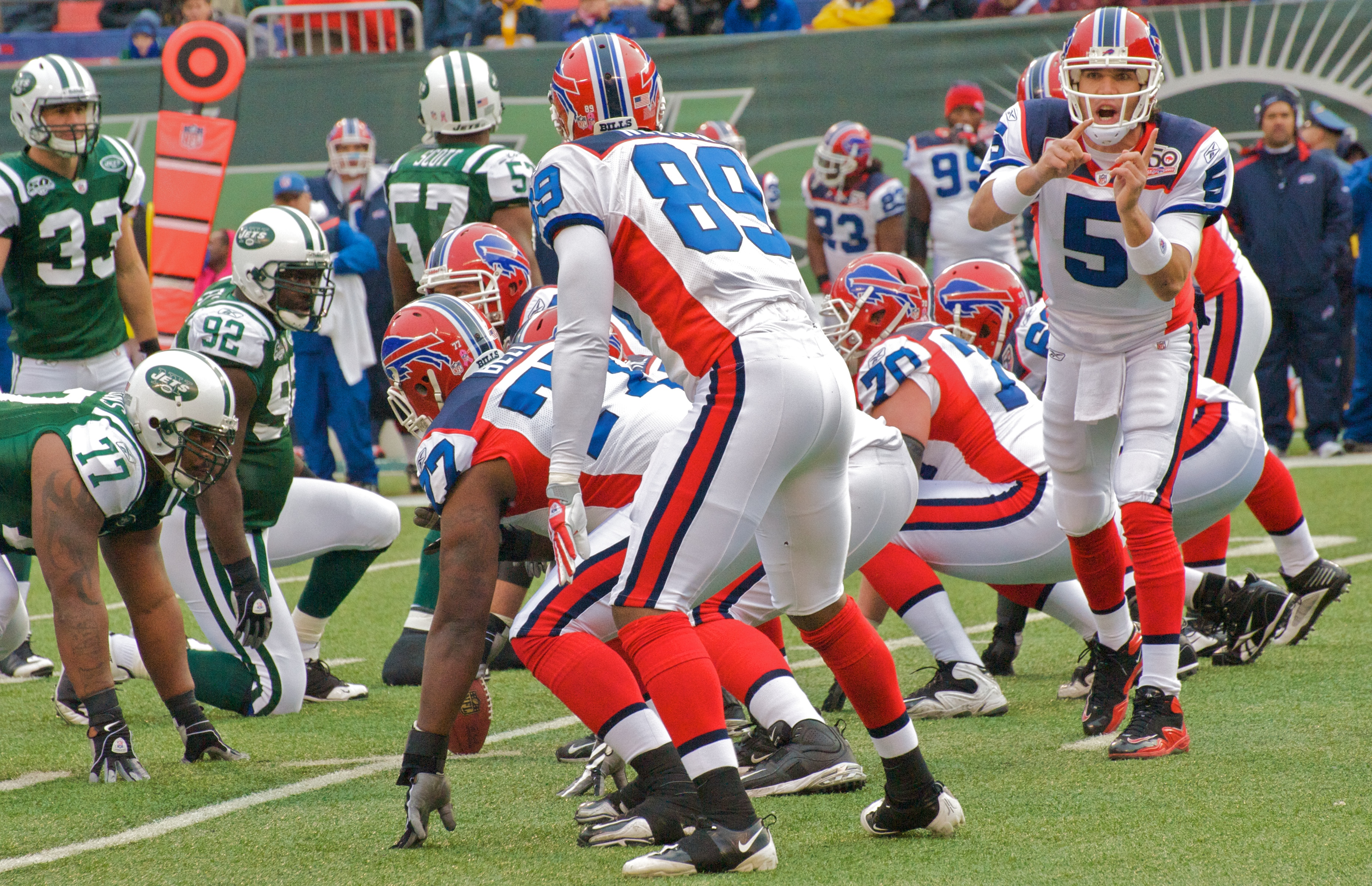 Trent Edwards (5) of the Buffalo Bills.